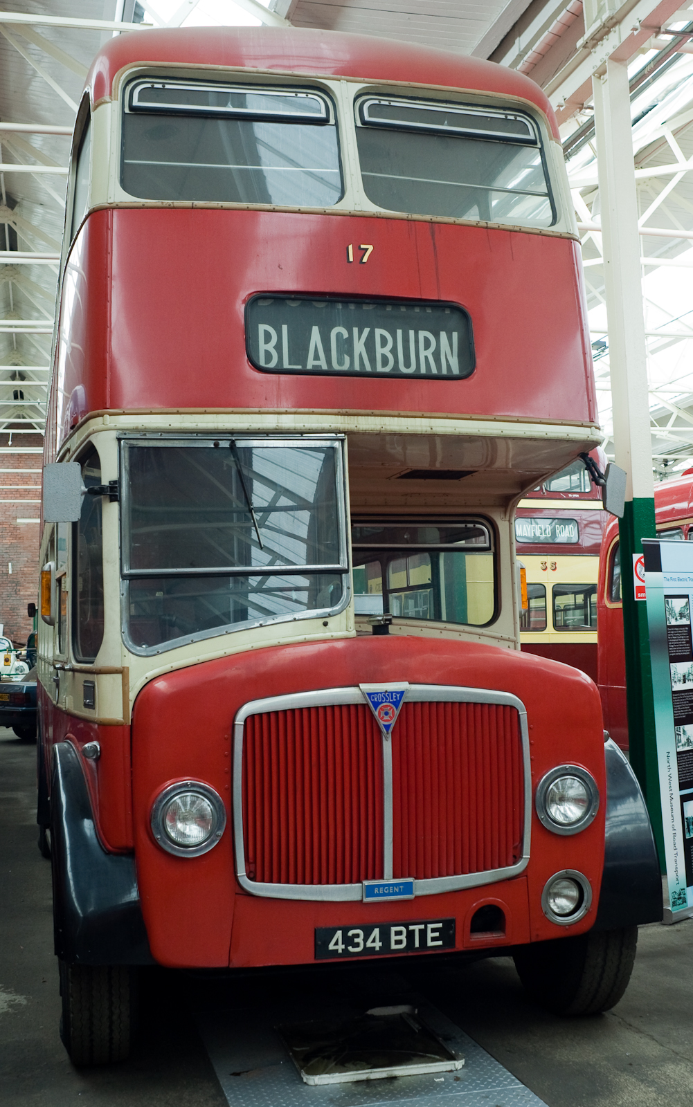 Crossley Regent double-decker bus (badge-engineered partner of AEC Regent) at the North West Museum of Road Transport, St. Helens, England, UK.